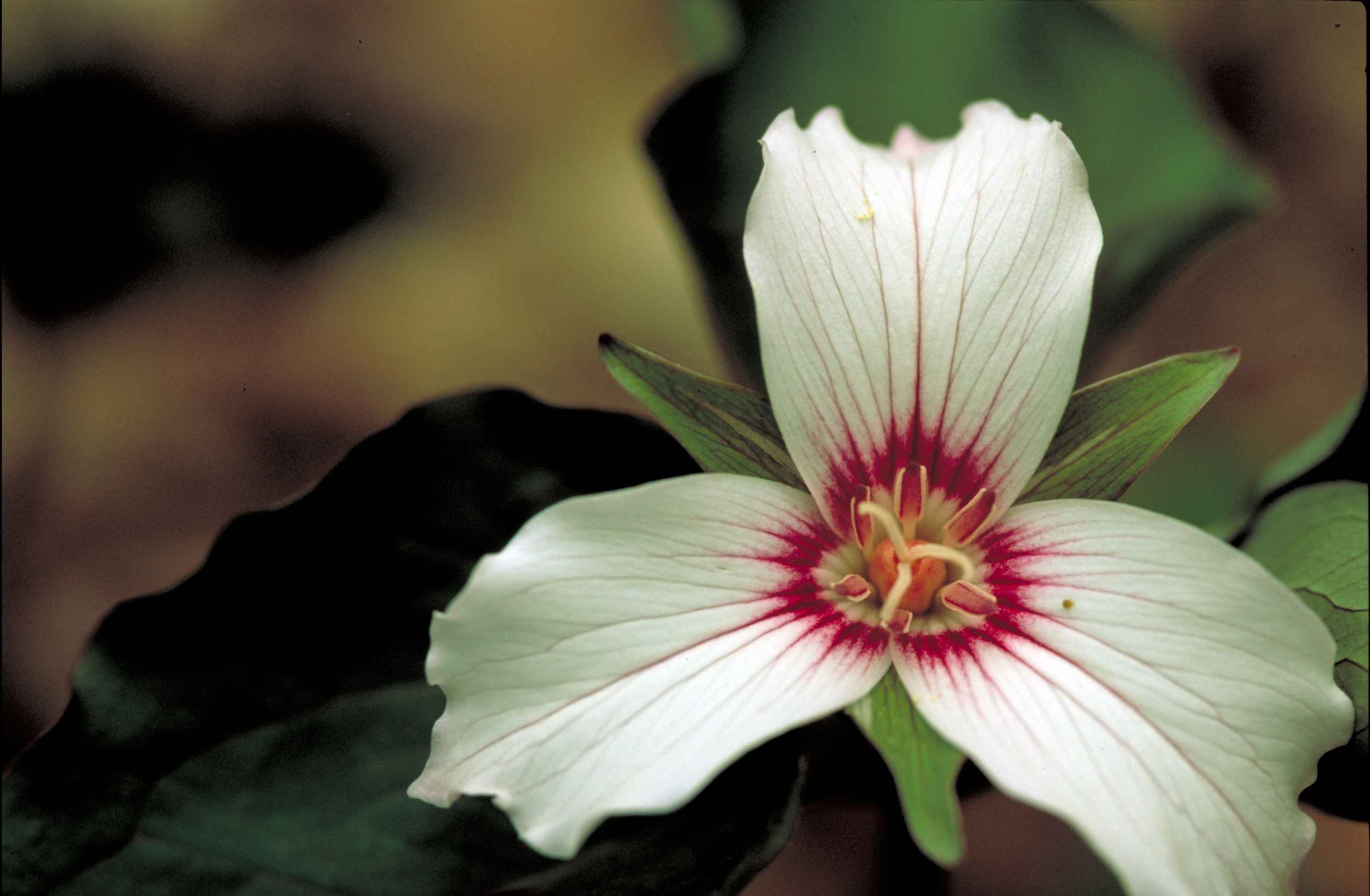 Image title: Painted trillium flower macro image trillium undulatum Image from Public domain images website